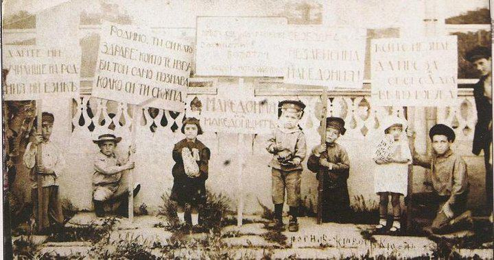 Protest_of_macedonian_bulgarians_1925